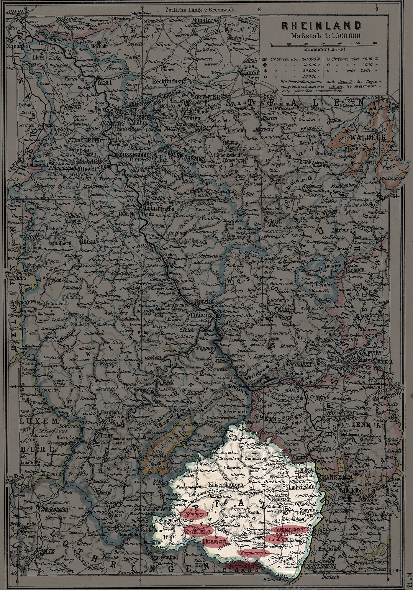 Places in the southern Palatinate from where the colonists of Landau (Schyrokolaniwka) came